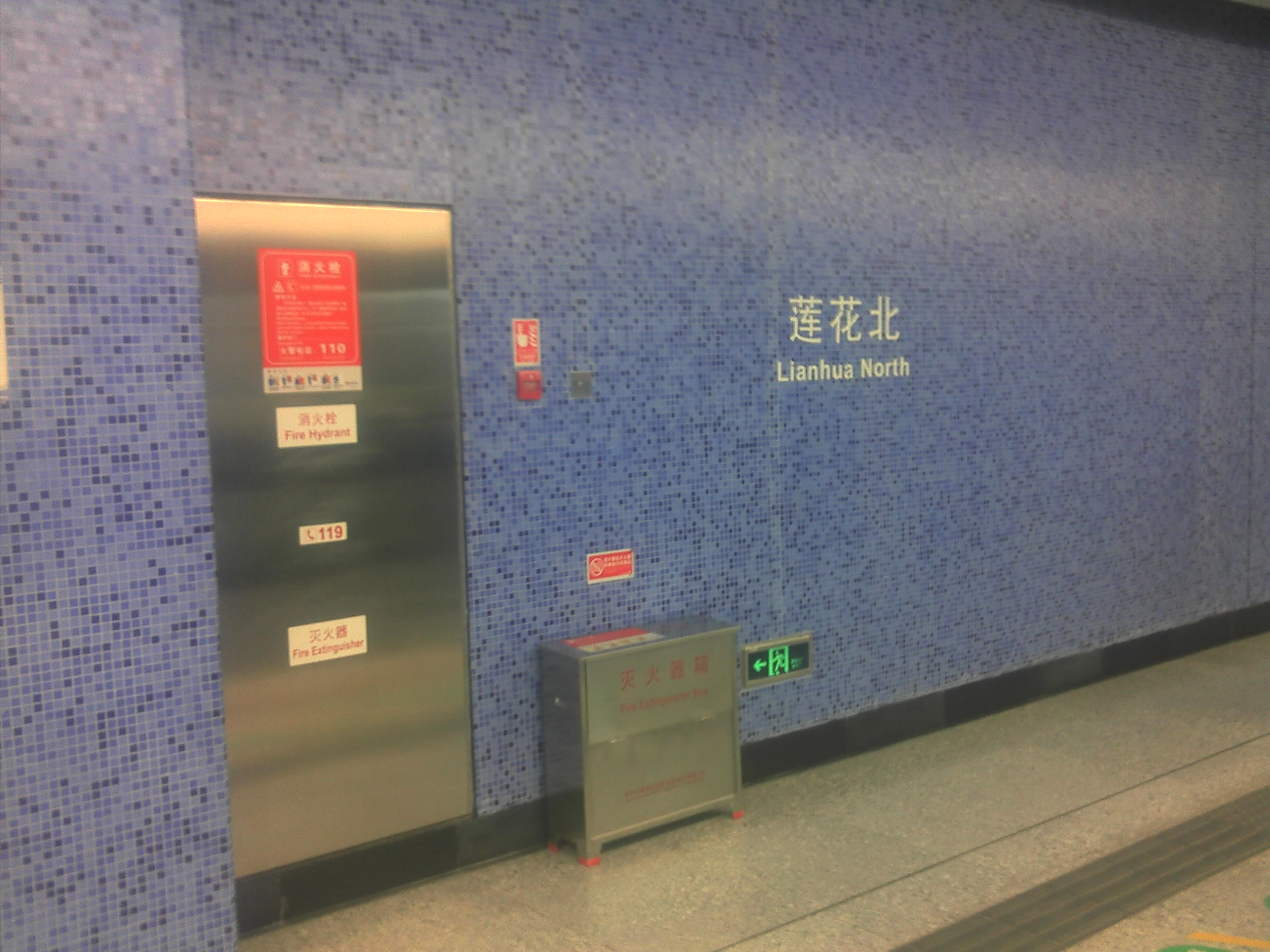 This photo was taken as Dec 10, 2011 at the Lianhua North Station.